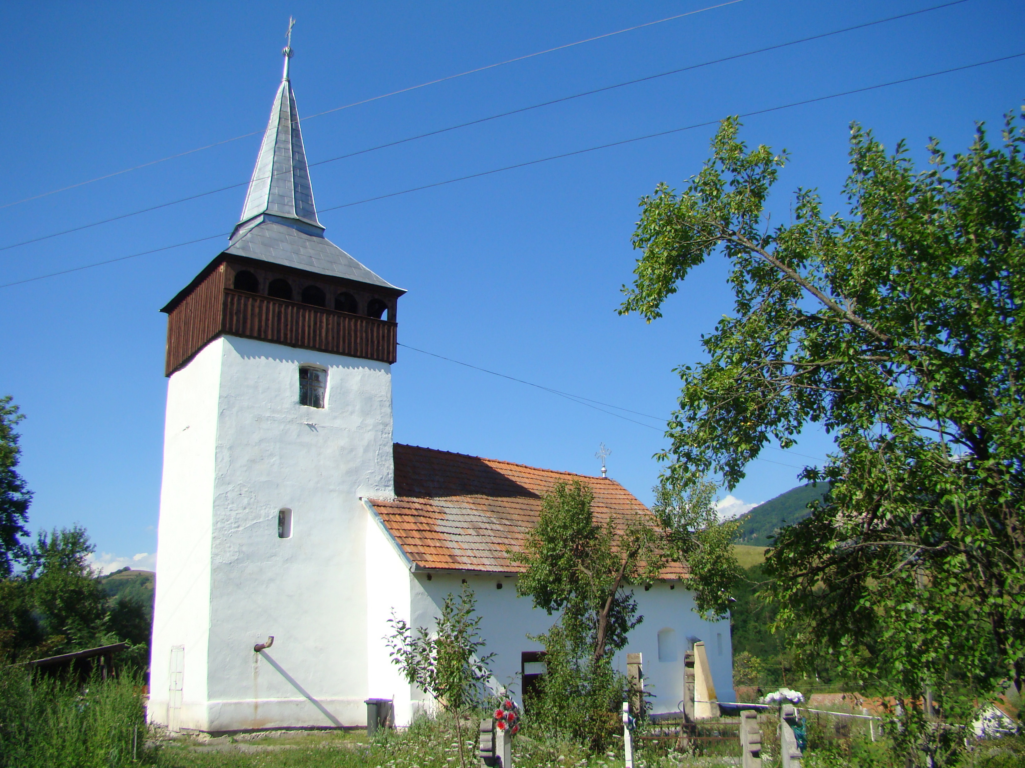 Orthodox church of the Annunciation in Almașu Mare, Alba county, Romania